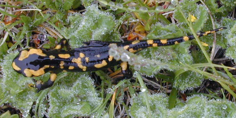 Salamander (exact type unknown...) image. Image taken near Lescun in 2000/06.